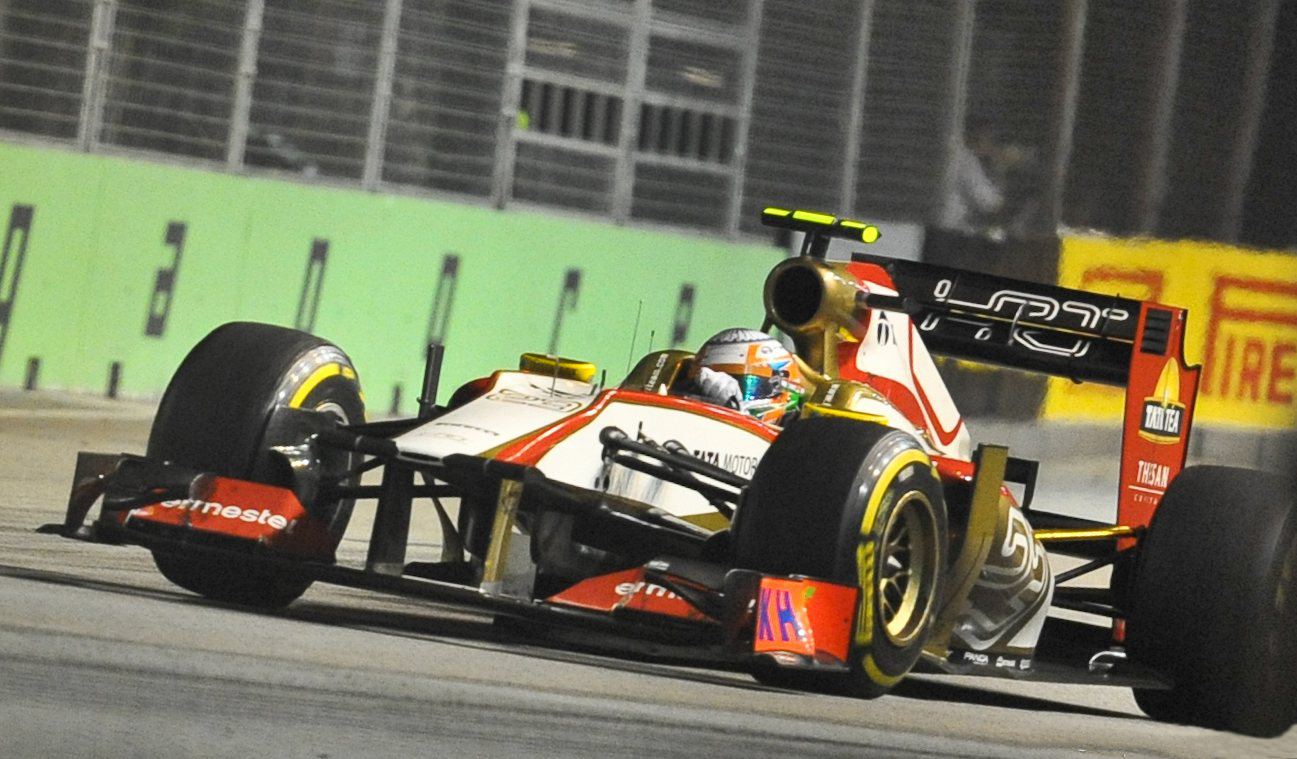 Singapore GP Final Race 4